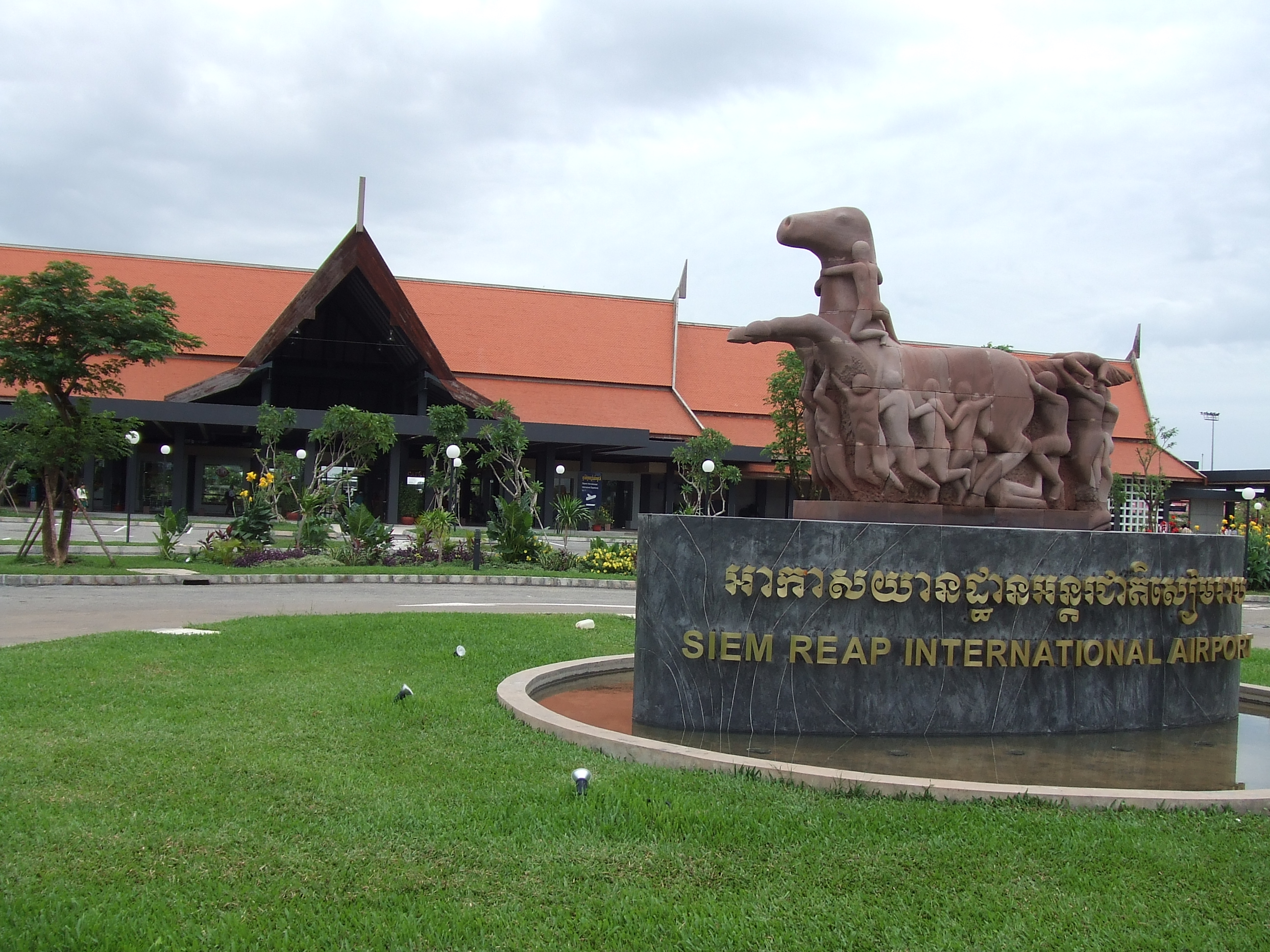 Entrance of Siem Reap International Airport and Overseas Terminal